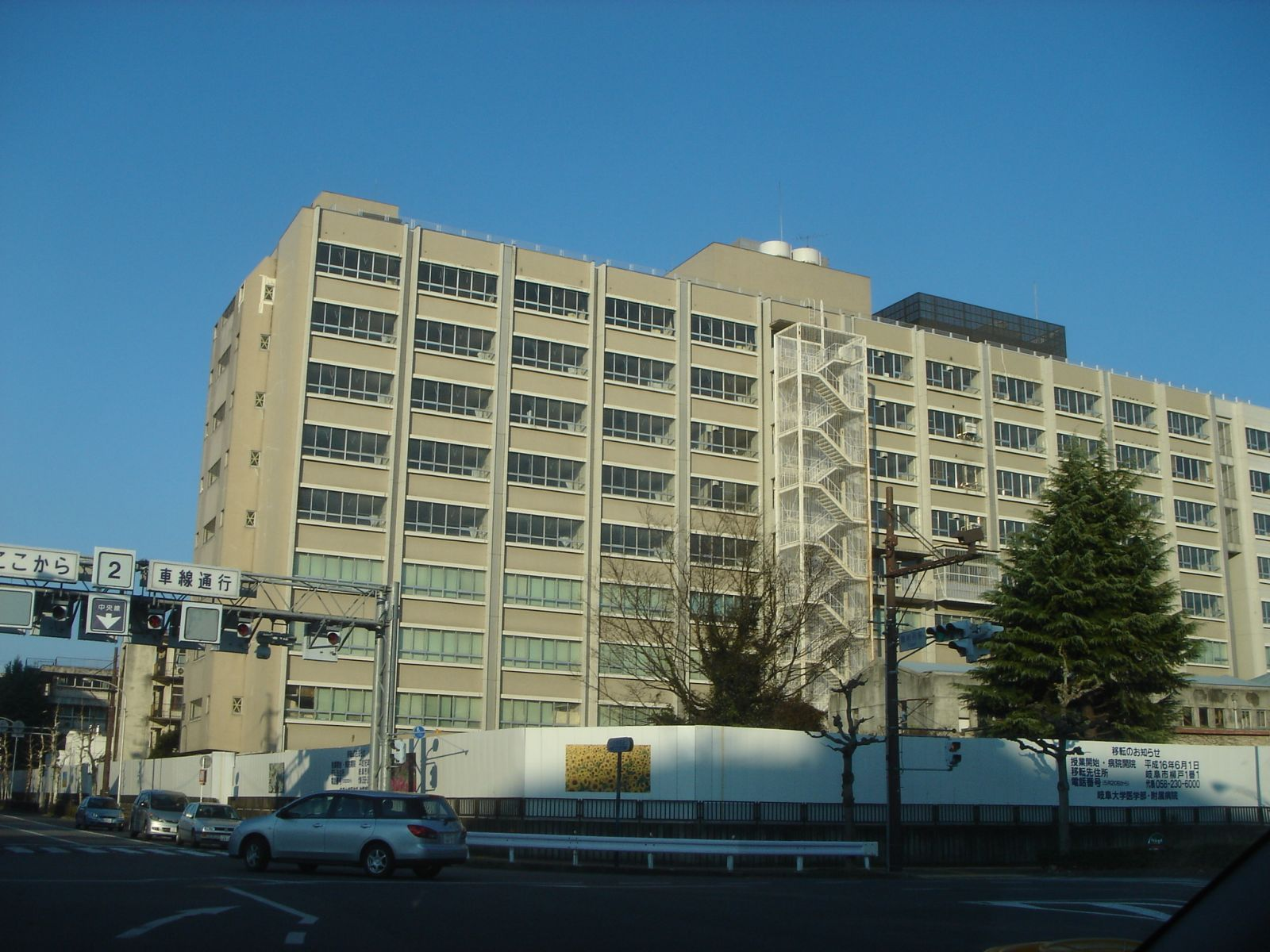 Gifu University Hospital（岐阜大学医学部附属病院の移転前の建物）,Gifu,Gifu,Japan(岐阜県岐阜市司町)で撮影。